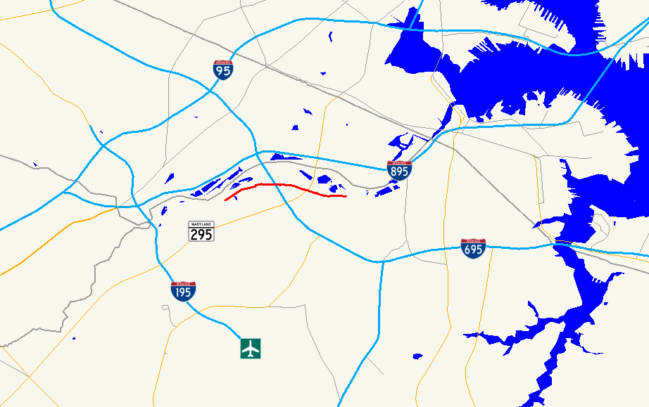 Map of Maryland Route 168